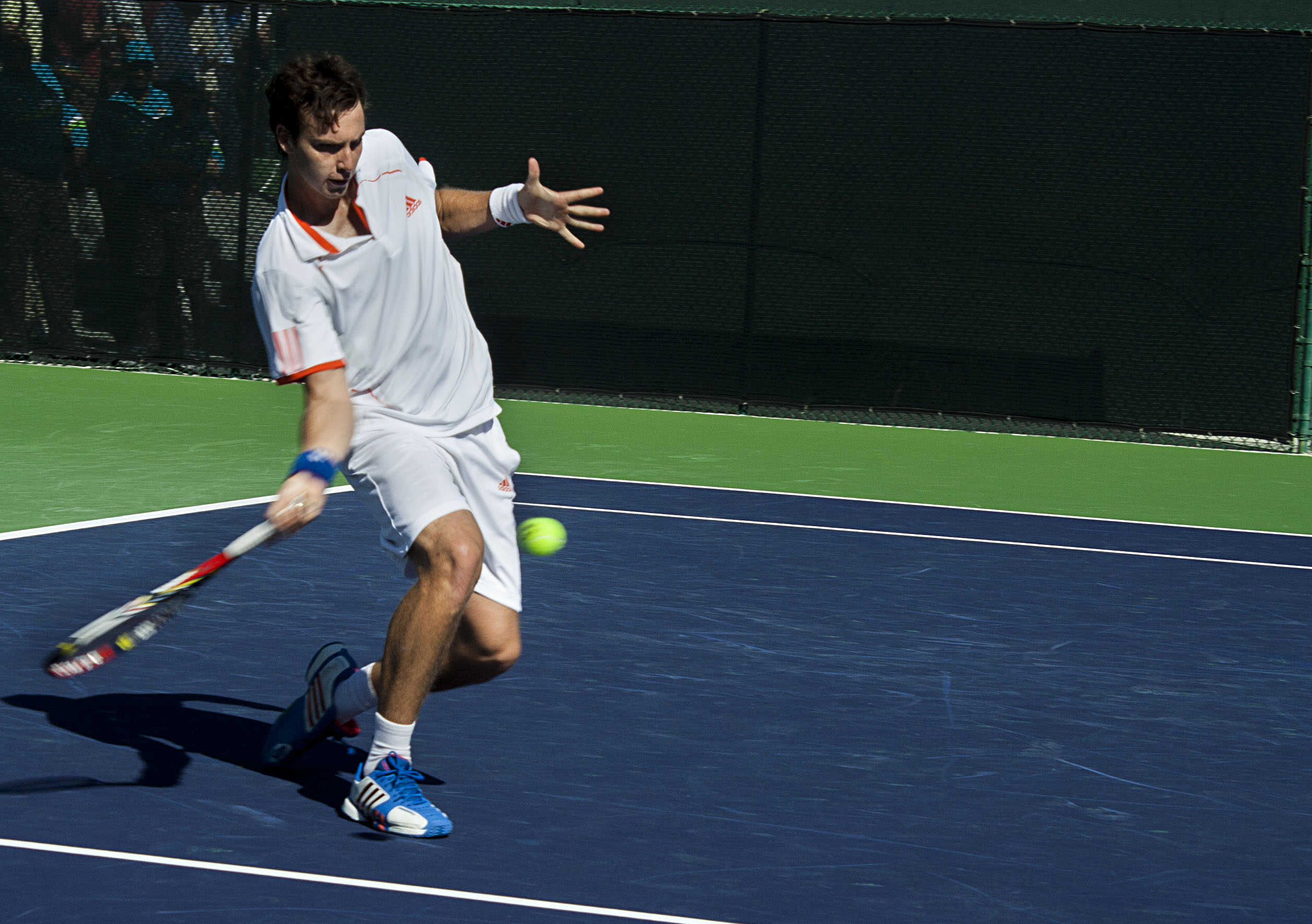 Smacks a forehand with style. I wish he were more diligent with his game. He's a terrific talent.